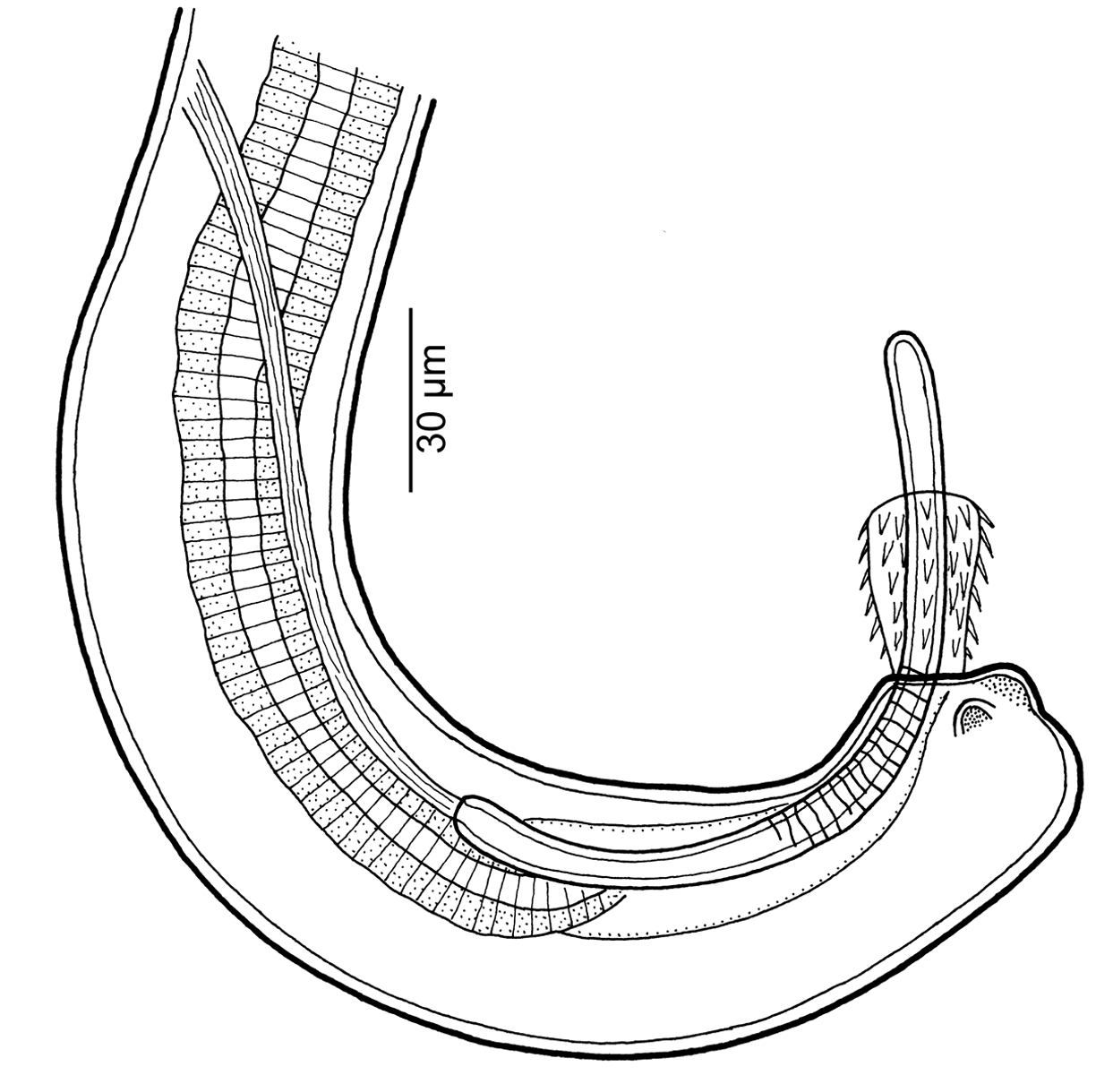 Capillaria plectropomi Moravec & Justine, 2014 (Nematoda: Capillariidae) from Plectropomus leopardus. Caudal end of male, lateral view.